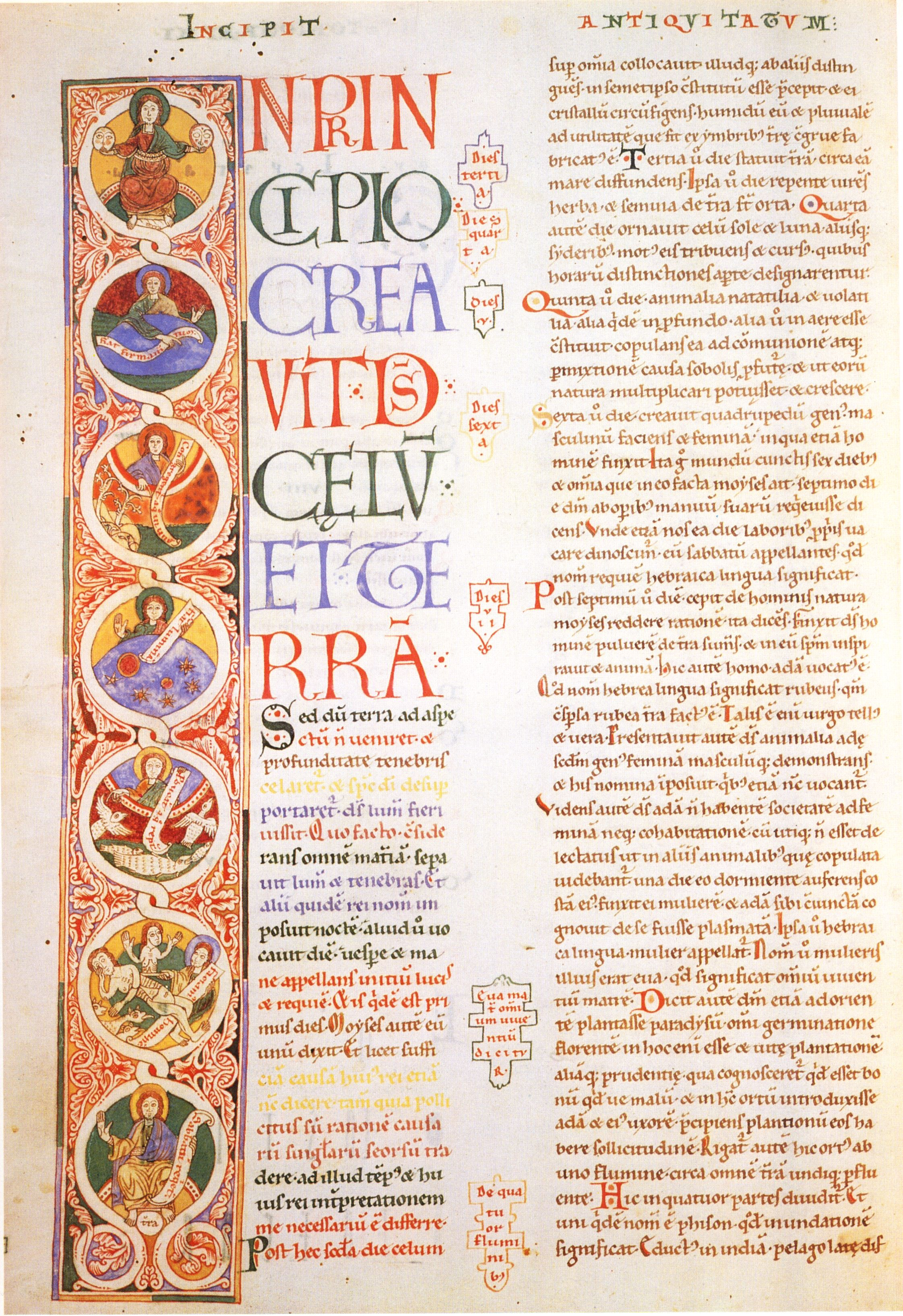 Josephus, Antiquitates Iudaicae in Latin translation. Florence, Biblioteca Medicea Laurenziana, Plut. 66.5, fol. 2v.